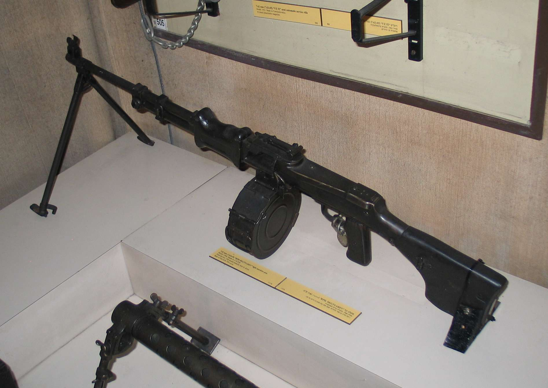 Batey ha-Osef museum, Tel Aviv, Israel. RPD machine gun.